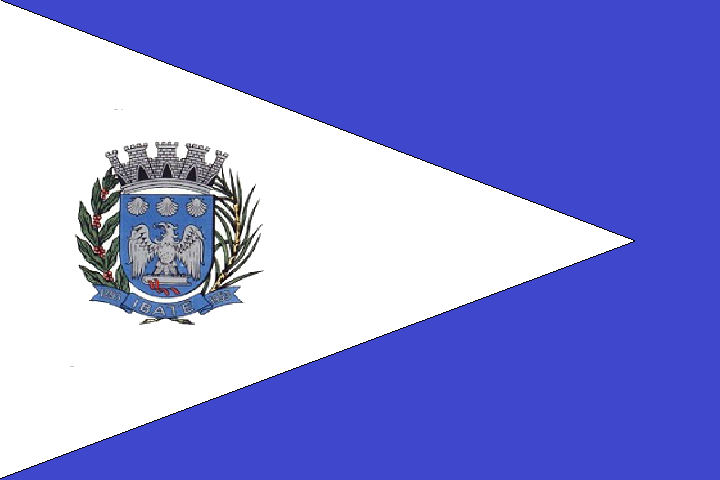 Flag of Ibaté, state of São Paulo, Brazil. This work is in the public domain in Brazil for one of the following reasons: It is a work published or commissioned by a Brazilian government (federal, state, or municipal) prior to 1983.(Law 3071/1916, art. 662; Law 5988/1973, art. 46; Law 9610/1998, art. 115) It is the text of a treaty, convention, law, decree, regulation, judicial decision, or other official enactment.(Law 9610/1998, art. 8) This image shows a flag, a coat of arms, a seal or some other official insignia. The use of such symbols is restricted in many countries. These restrictions are independent of the copyright status.